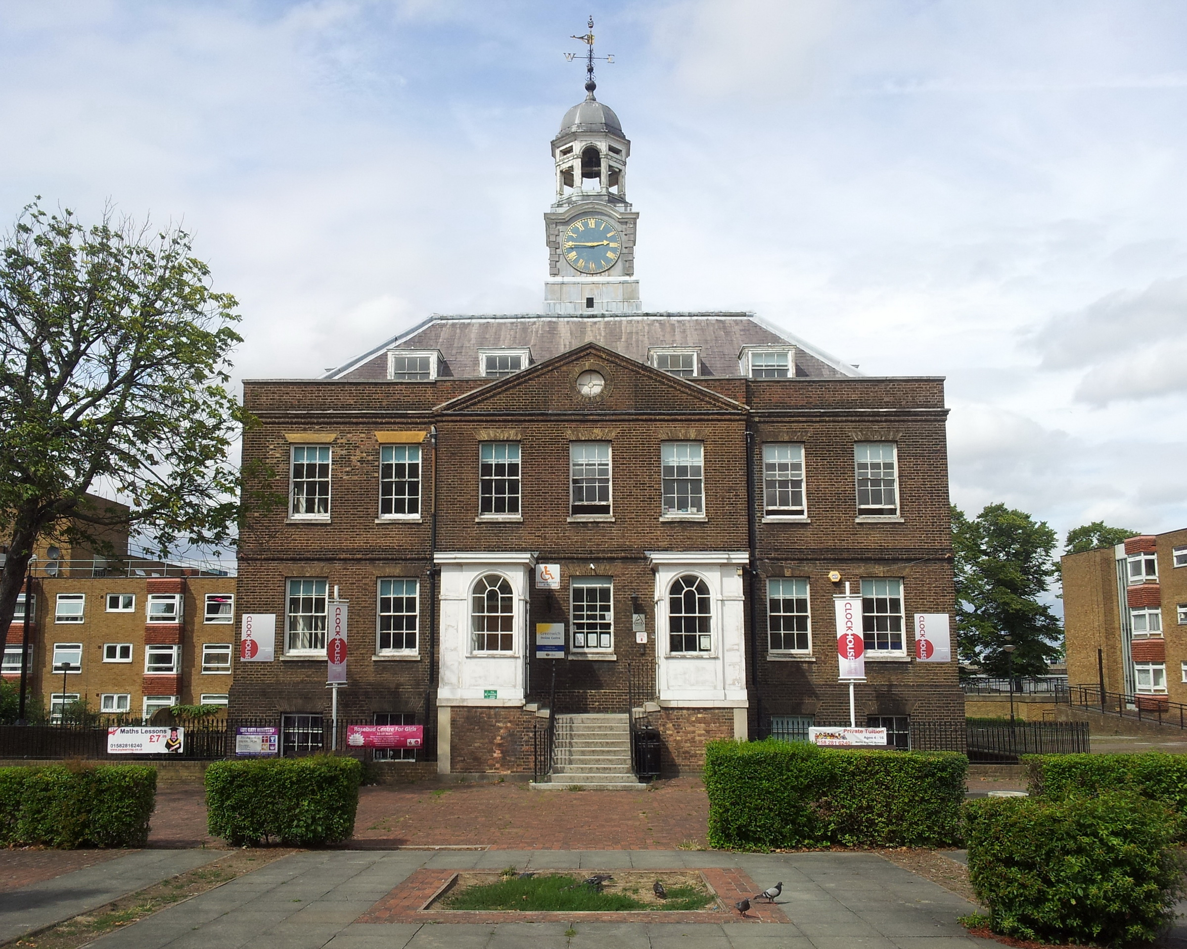 Historic house, now a community centre, at Woolwich Dockyard, Woolwich, South East London.